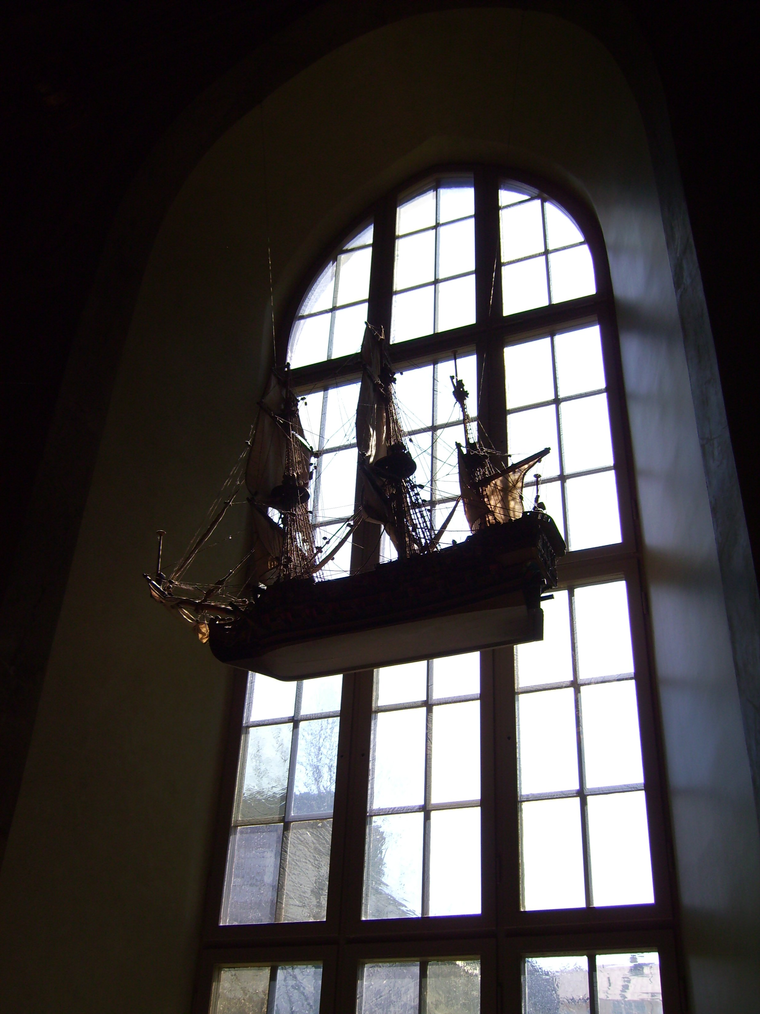 Photo by Harri Blomberg.